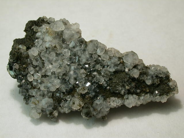 Analcime Locality: Bay of Fundy, Cumberland County, Nova Scotia, Canada Original description: A 3.7 by 2.4 cms group of crystals. JSS specimen and photograph.